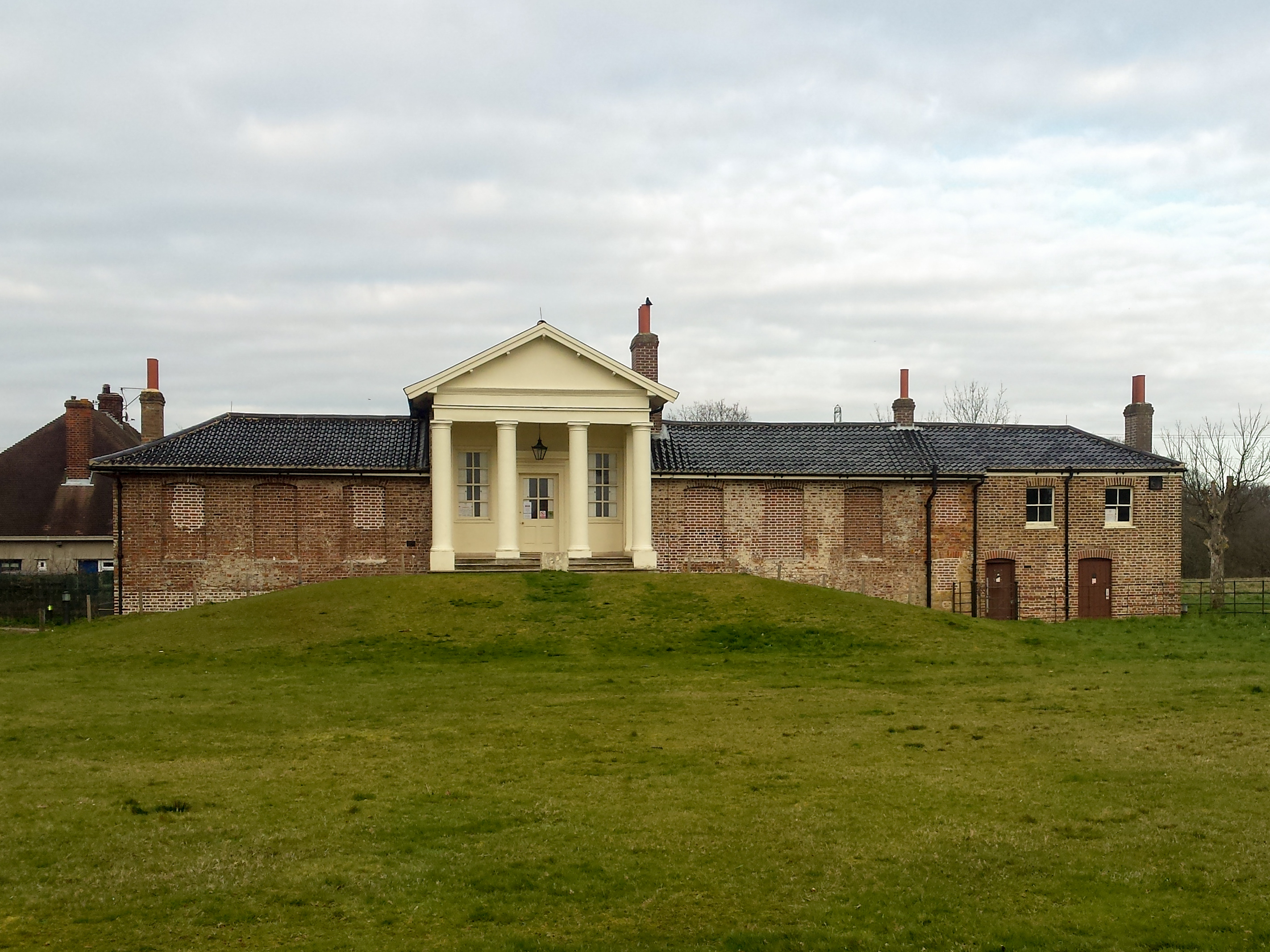 The Temple, Wanstead Park, viewed from the front